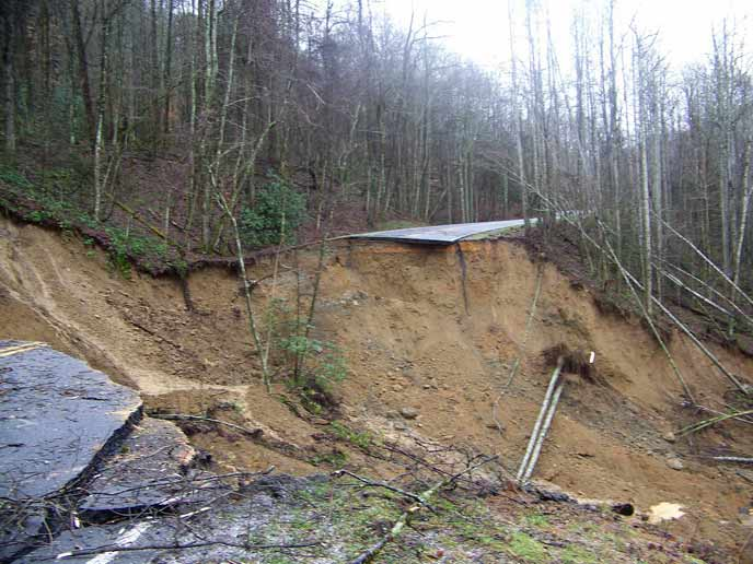 National Park Service photo of landslide on US 441 near mile marker 22 in Great Smokey Mountain Park.